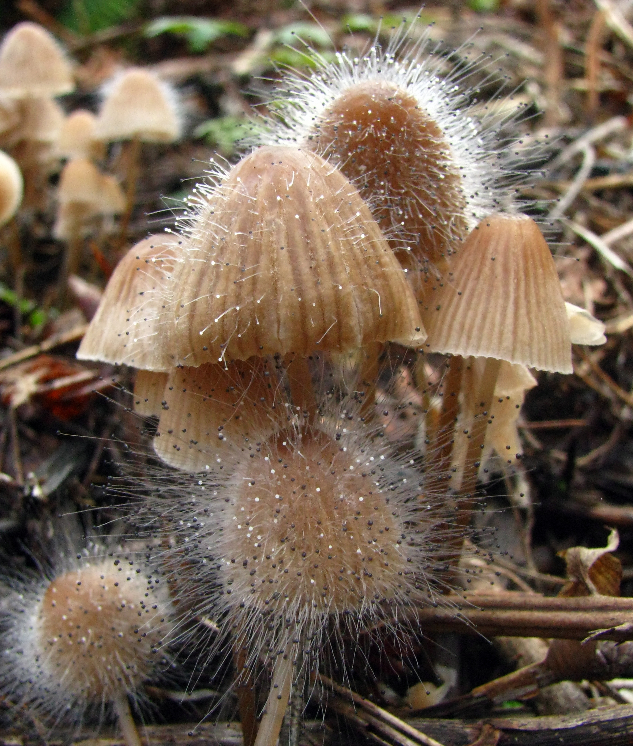 Spinellus fusiger (Link) Tiegh. Image location: Capitol Hill Neighborhood, Seattle, Washington, USA Recognized by sight For more information about this, see the observation page at Mushroom Observer.